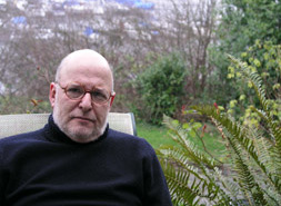 This is a picture submitted by the subject, Michael Gruber, in order to replace the press kit photo that he dislikes.